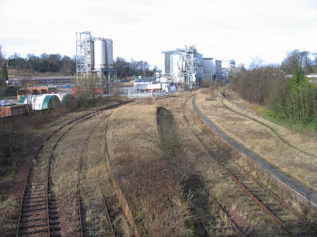 Cameron Bridge station and distillery A winter's day with springtime vegetation yet to sprout enables the disused track layout at the former Cameron Bridge station to be more clearly seen. The left-hand track used to pass into the distillery through a gate but, following a trial a few years ago, huge lorries are deemed a cheaper option for bringing in the grain and bottles for the distilled spirit than re-organising the rail-loading facilities. The railway to Cameron Bridge has now been severed from the outside world near Thornton Junction.